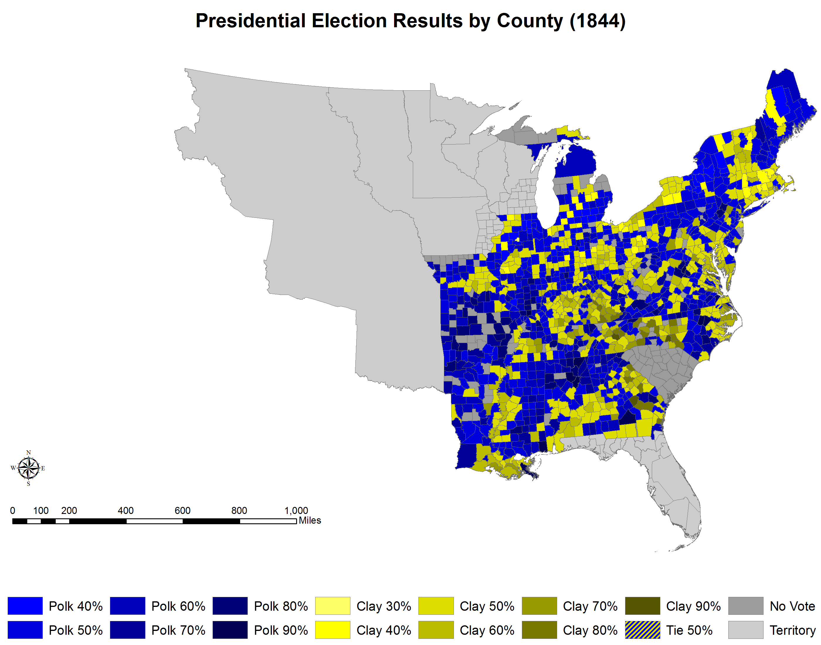 Presidential election results by county (1844).